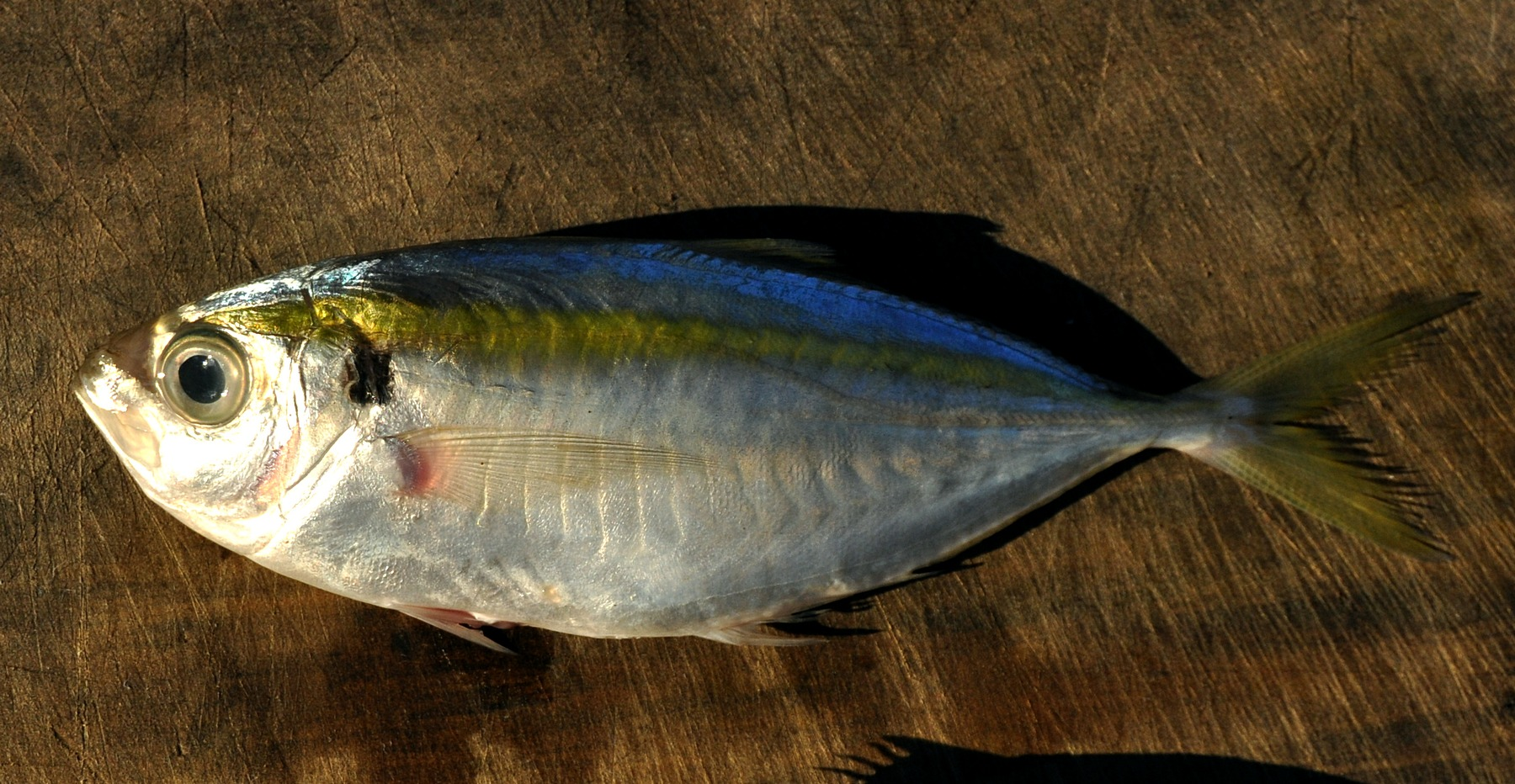 Yellowstripe scad (Selaroides leptolepis), 116 mm fork length; from local market in Jakarta, Indonesia.